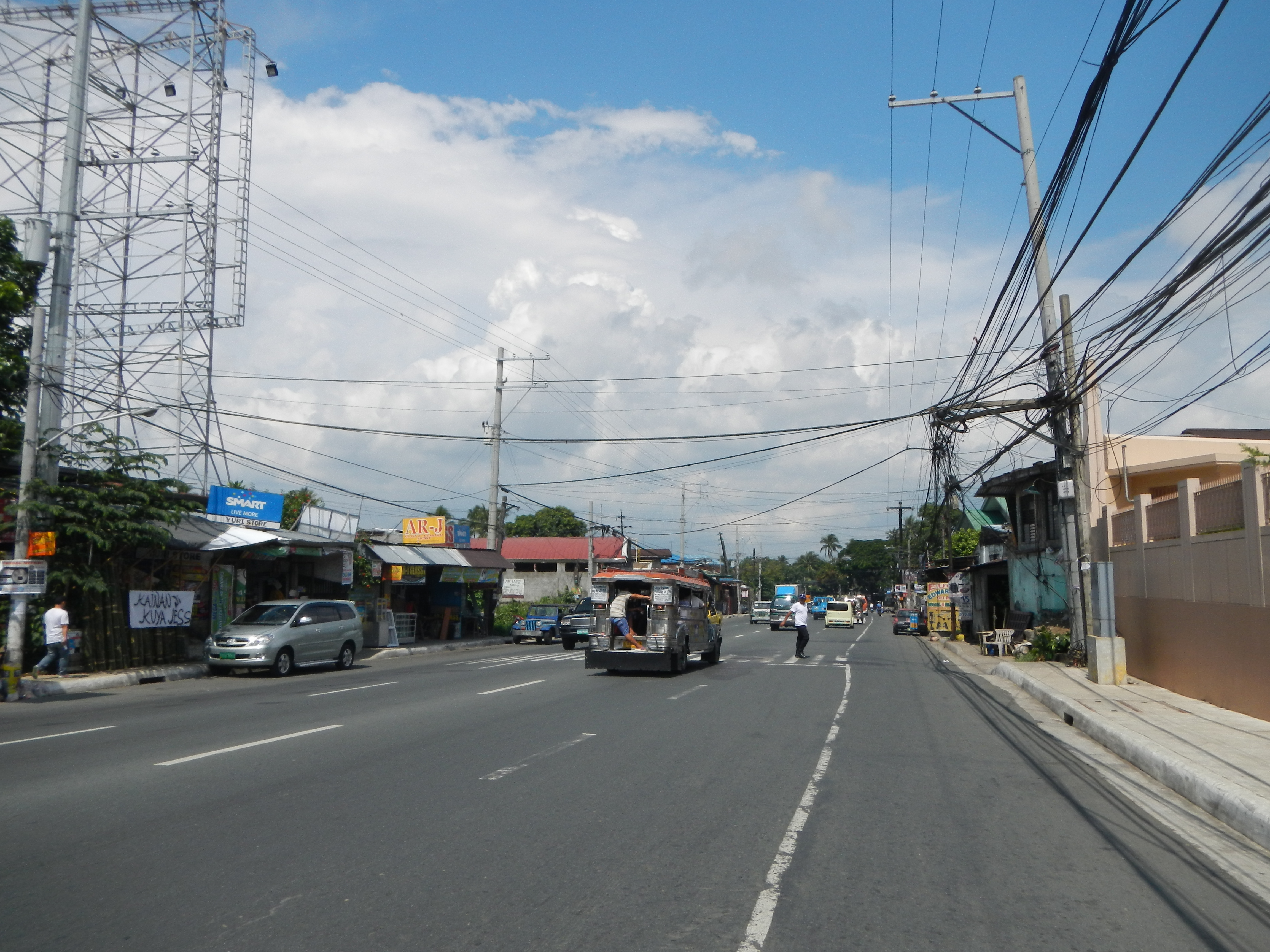 Downtown and Lipa City (Tambo) Exit Four-ramp partial cloverleaf Left goes to Lipa City proper, Robinson's Place Lipa, SM City Lipa and San Antonio, Quezon; right goes to Mataas Na Kahoy, Fernando Air Base and Anilao Beach. Southern Tagalog Arterial Road (STAR) / STAR Tollway [1] STAR Tollway: Expressway extending from Batangas City to Santo Tomas, connected to SLEX via ACTEX. Driving time from Lipa to Manila is about 90 minutes.(also known as the STAR Tollway or CALABARZON Expressway) is a four-lane (from Sto. Tomas to Lipa) and two-lane (from Lipa to Balagtas) 42 km (26 mi) expressway in the Philippines. It is operated by STAR Infrastructure Development Corporation (STAR - IDC) Lipa City, Batangas[2] Website The City of Lipa (Filipino: Lungsod ng Lipa) /Li-pâ/ is a first class component city in the province of Batangas in the Philippines.